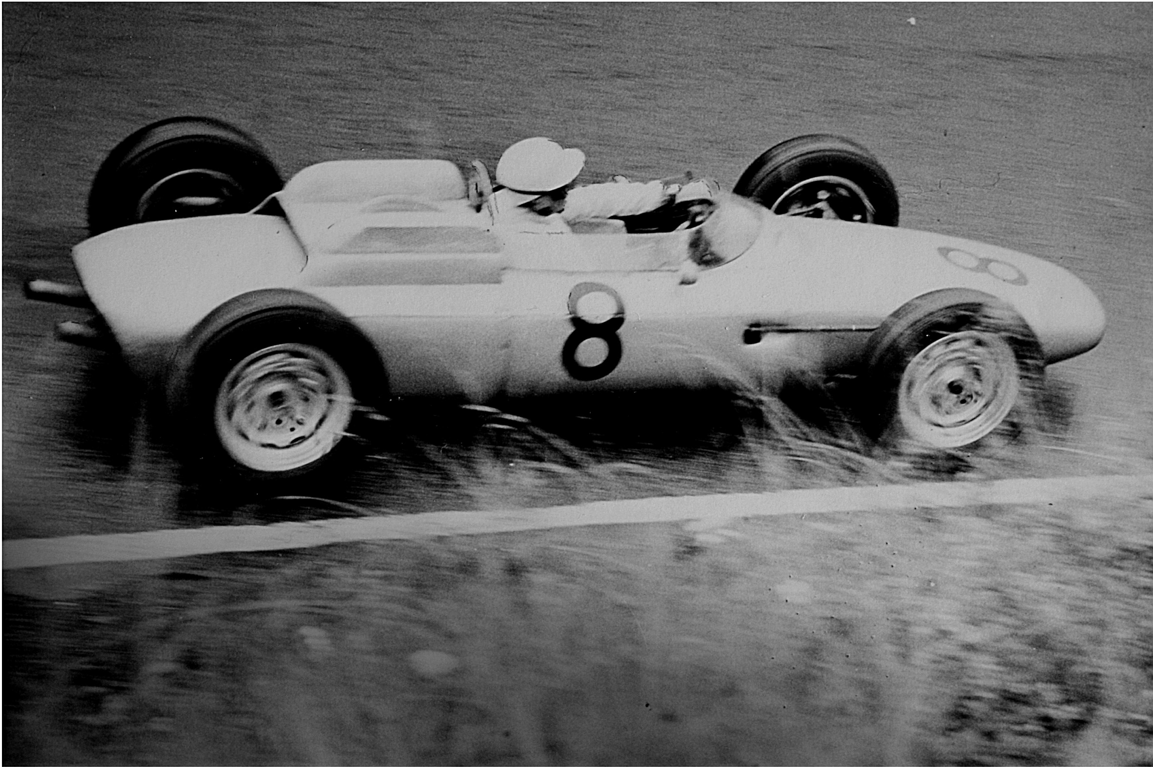 Joakim Bonnier with Porsche F1-804 at German Grand Prix on Nürburgring.